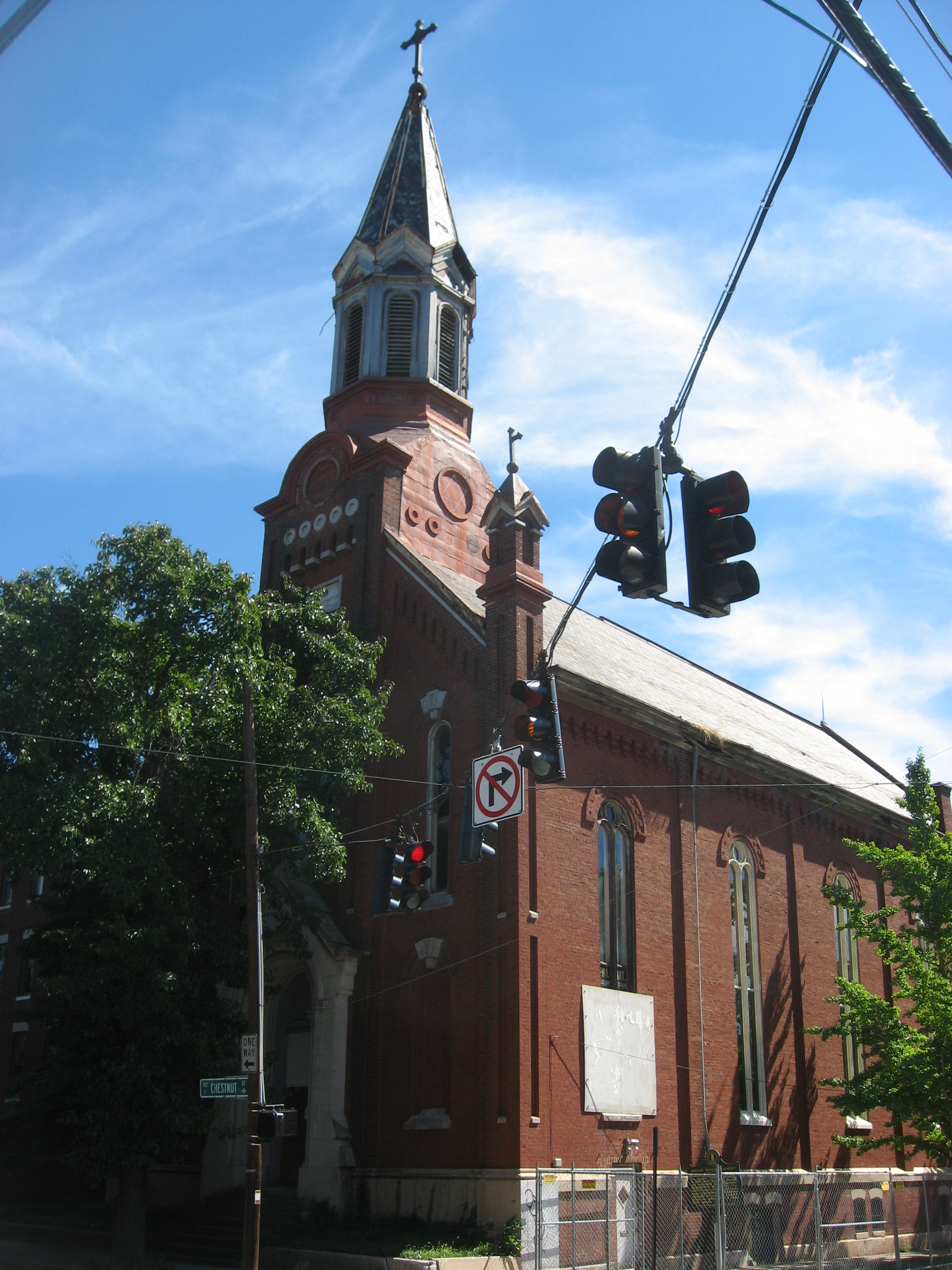 Front of the former Ursuline Convent, located at 800 E. Chestnut Street in the Phoenix Hill neighborhood of Louisville, Kentucky, United States. Built in 1869, it is listed on the National Register of Historic Places, and it is part of a Register-listed historic district, the Phoenix Hill Historic District.